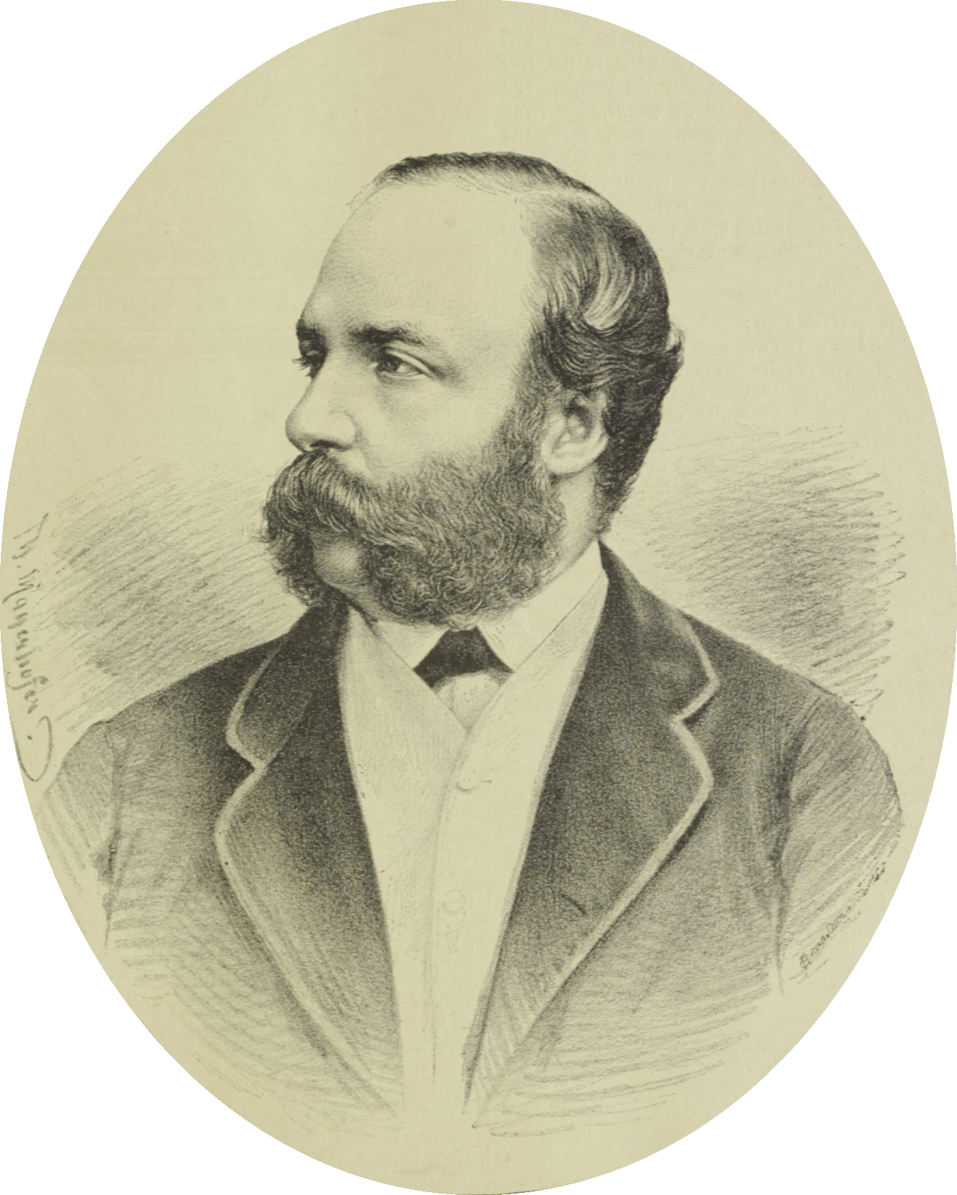 Moriz Freiherr von Königswarter (1837–1893), Austrian banker, art collector and politician